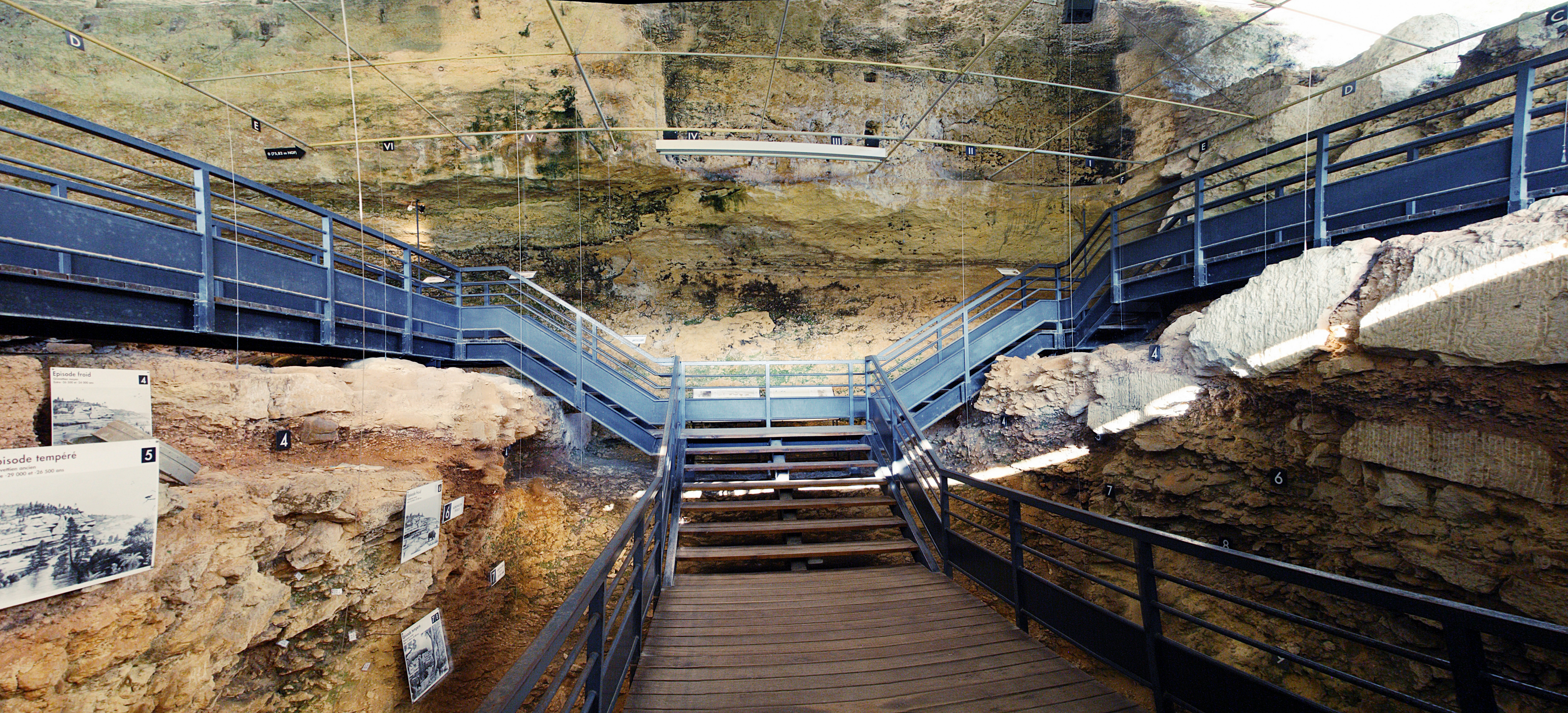 The Abri Pataud, an archaeological excavation site in Les Eyzies-de-Tayac, Dordogne, Aquitaine, France. Currently, the research is about the gravettian culture, near 29,000 ~ 22,000 BP.